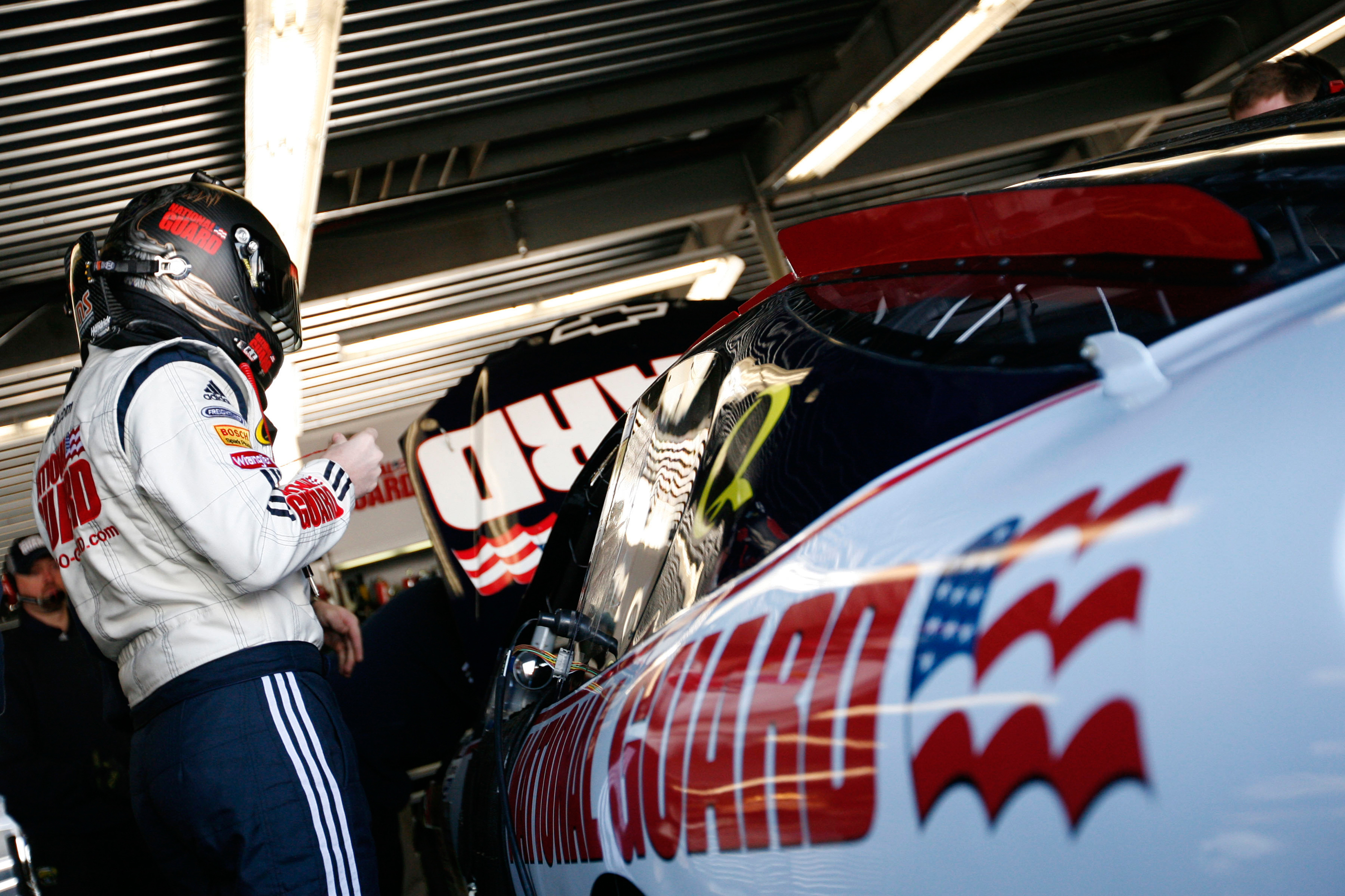 Dale Earnhardt Jr. at Daytona International Speedway 2008.